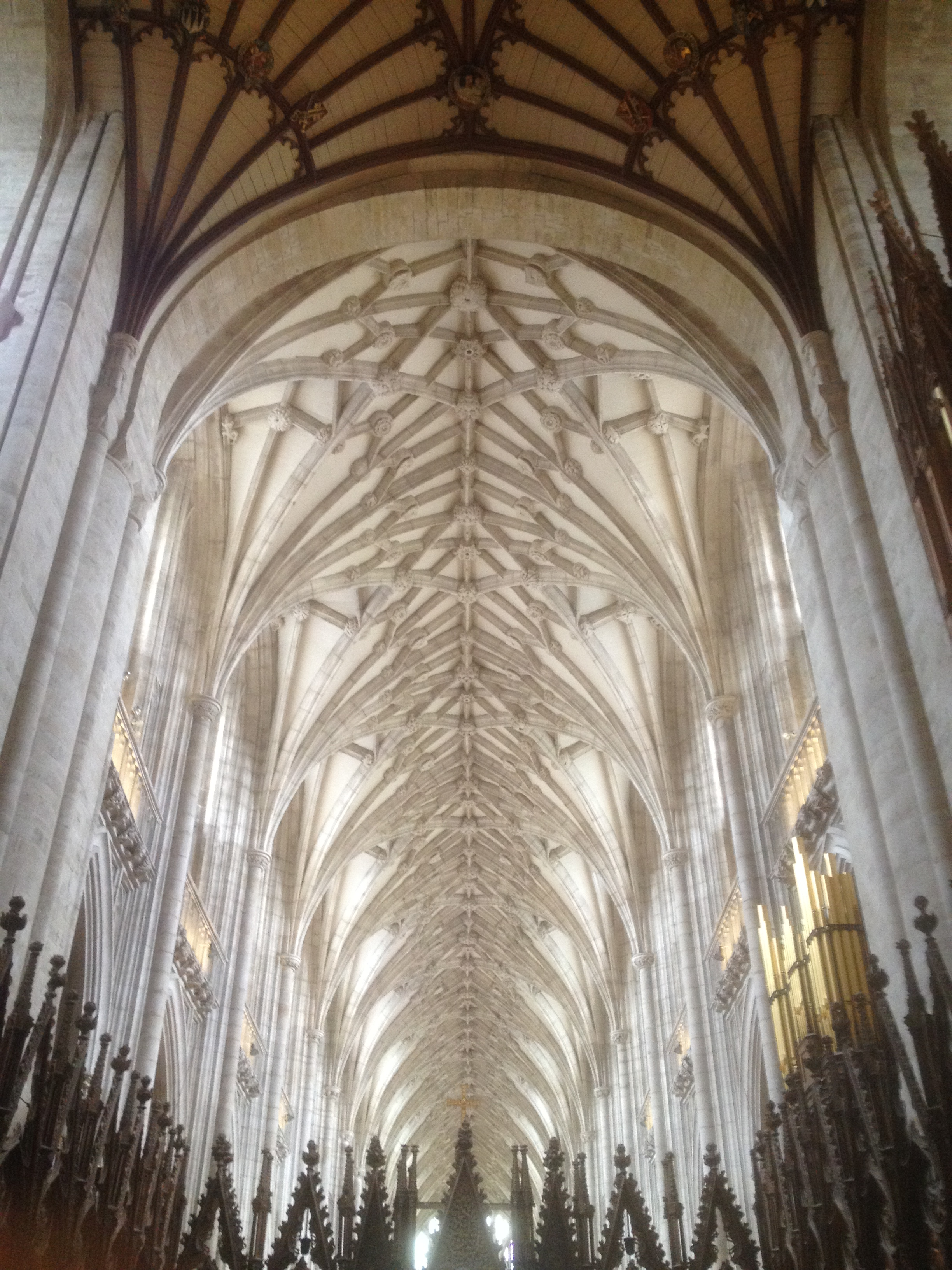 Nave of Winchester Cathedral